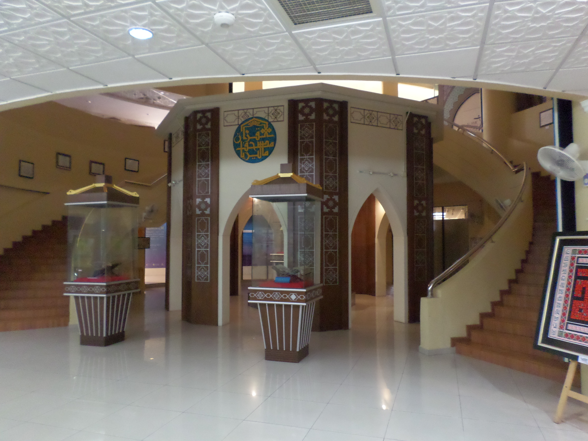 Melaka Al-Quran Museum, Melaka City, Central Melaka, Melaka, MalaysiaBahasa Melayu: Muzium Al-quran Melaka, Bandaraya Melaka, Melaka Tengah, Melaka, Malaysia